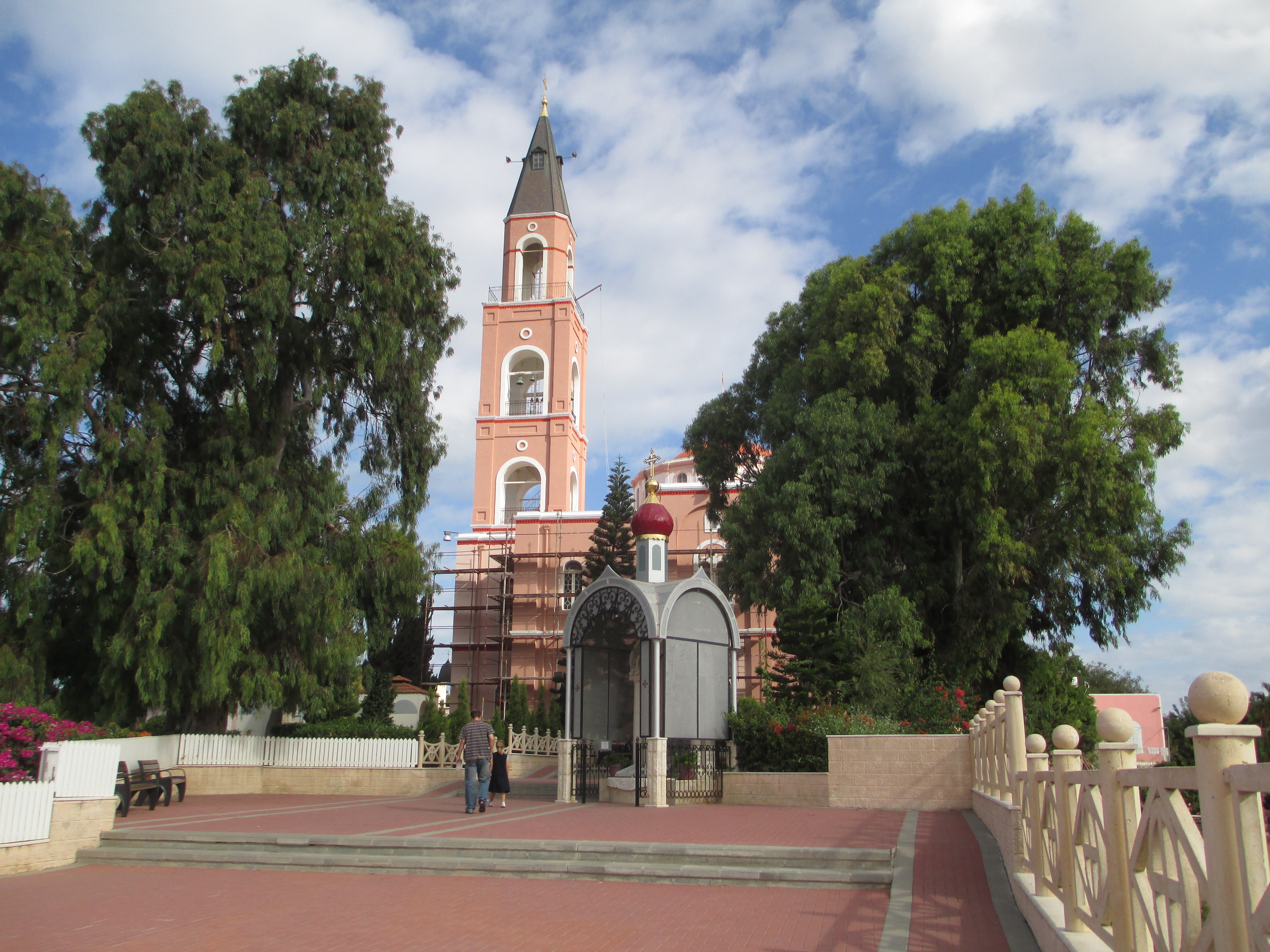 Russian (St. Petrus) church in Jaffa